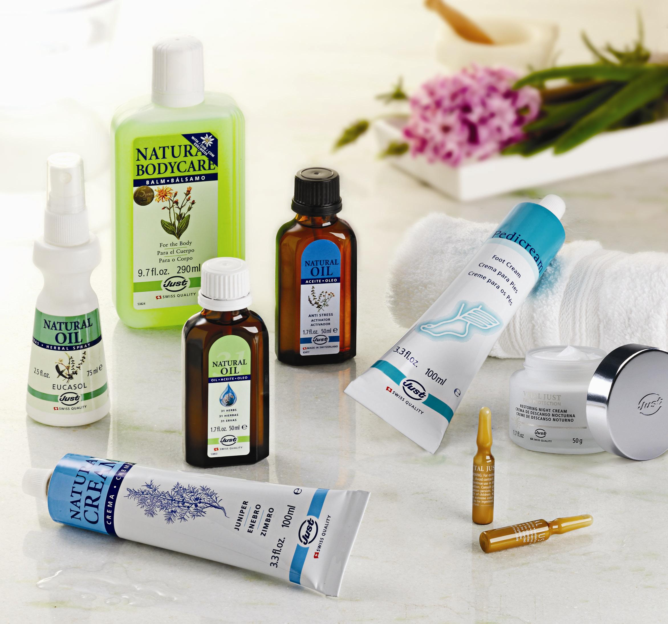 SwissJust Products